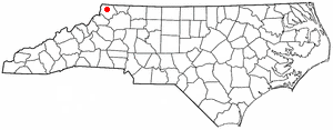 Category:North Carolina Dot Maps